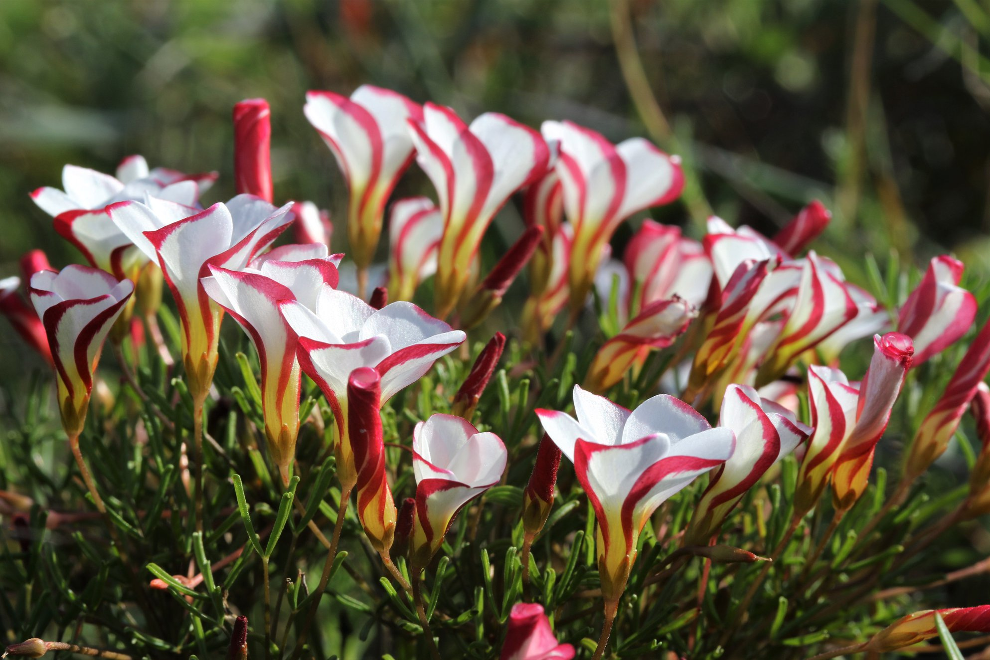 Oxalis versicolor L. - Cape Peninsula, South Africa